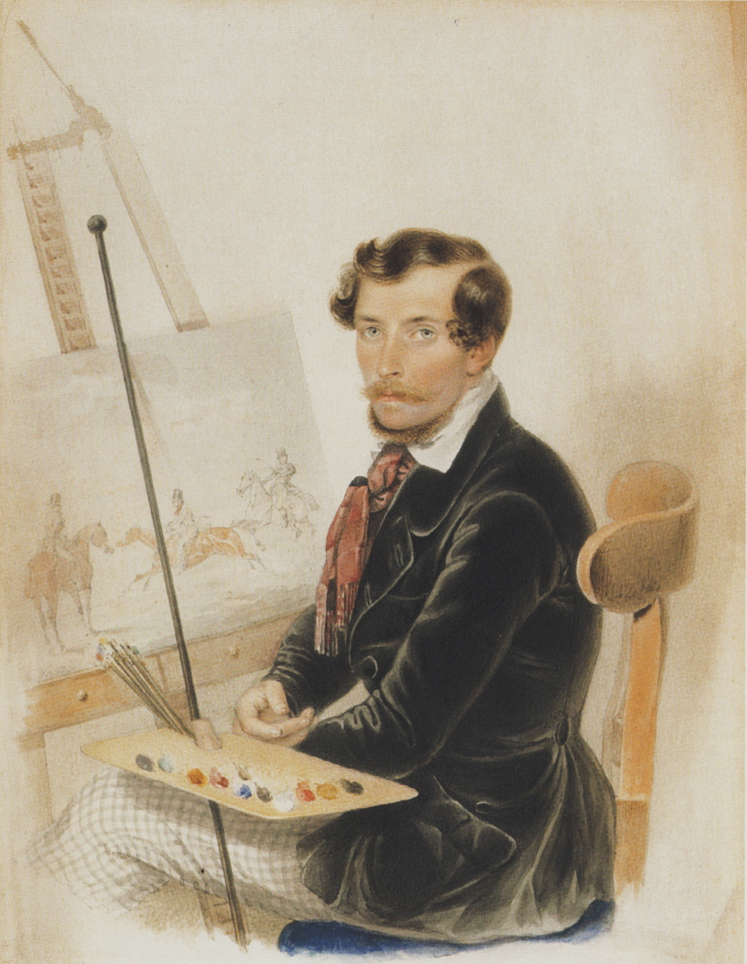 The painter Josef (Joseph) Heicke (1811-1861). Signed J. Clarot. Collection: Wien Museum, Inv.Nr. 61.095